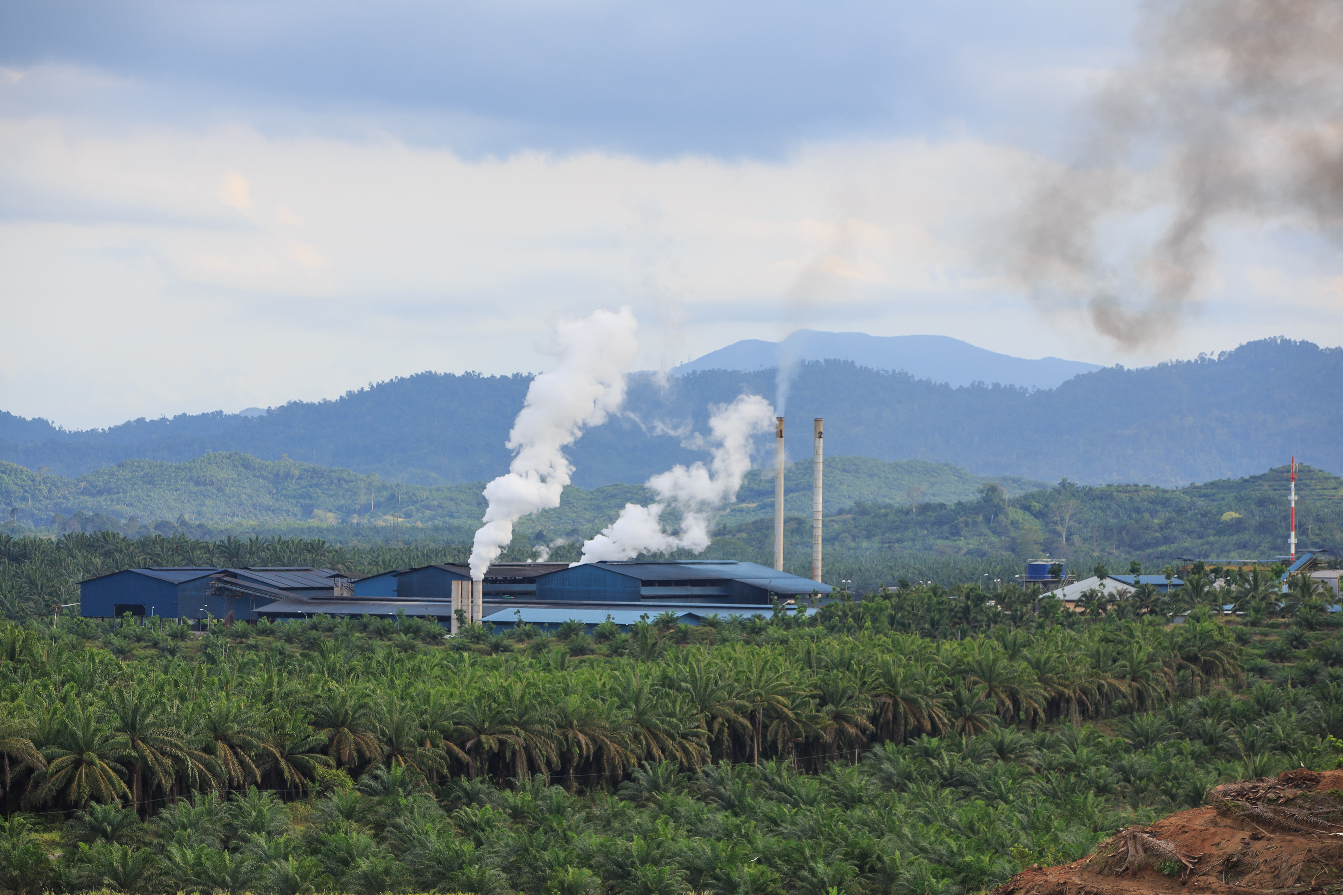 Sungai Mangis, Sabah: Tamaco Oil Mill 2)